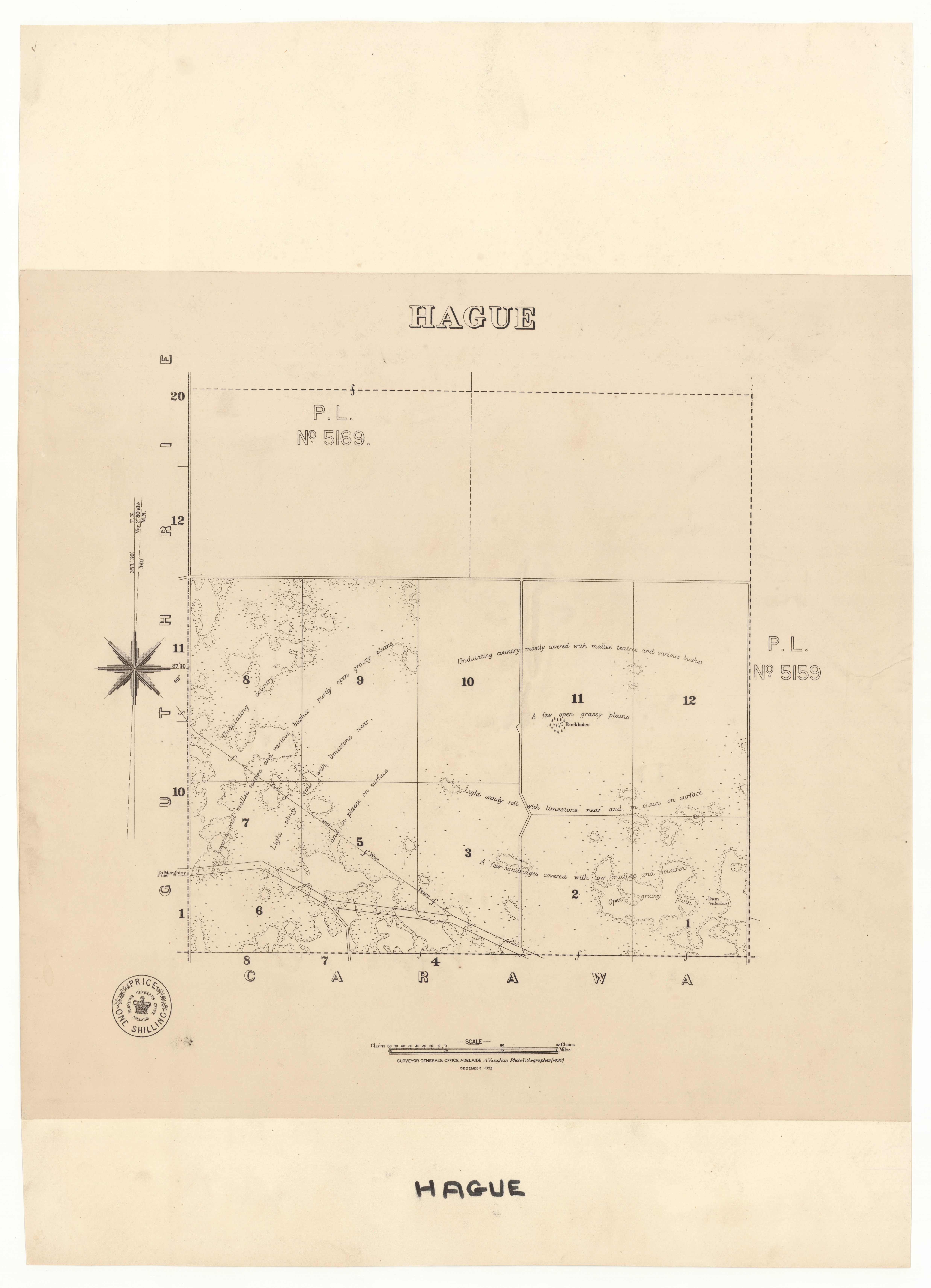 View additional information for this map Filename: map830bje63360_hague1893_ds.jpg